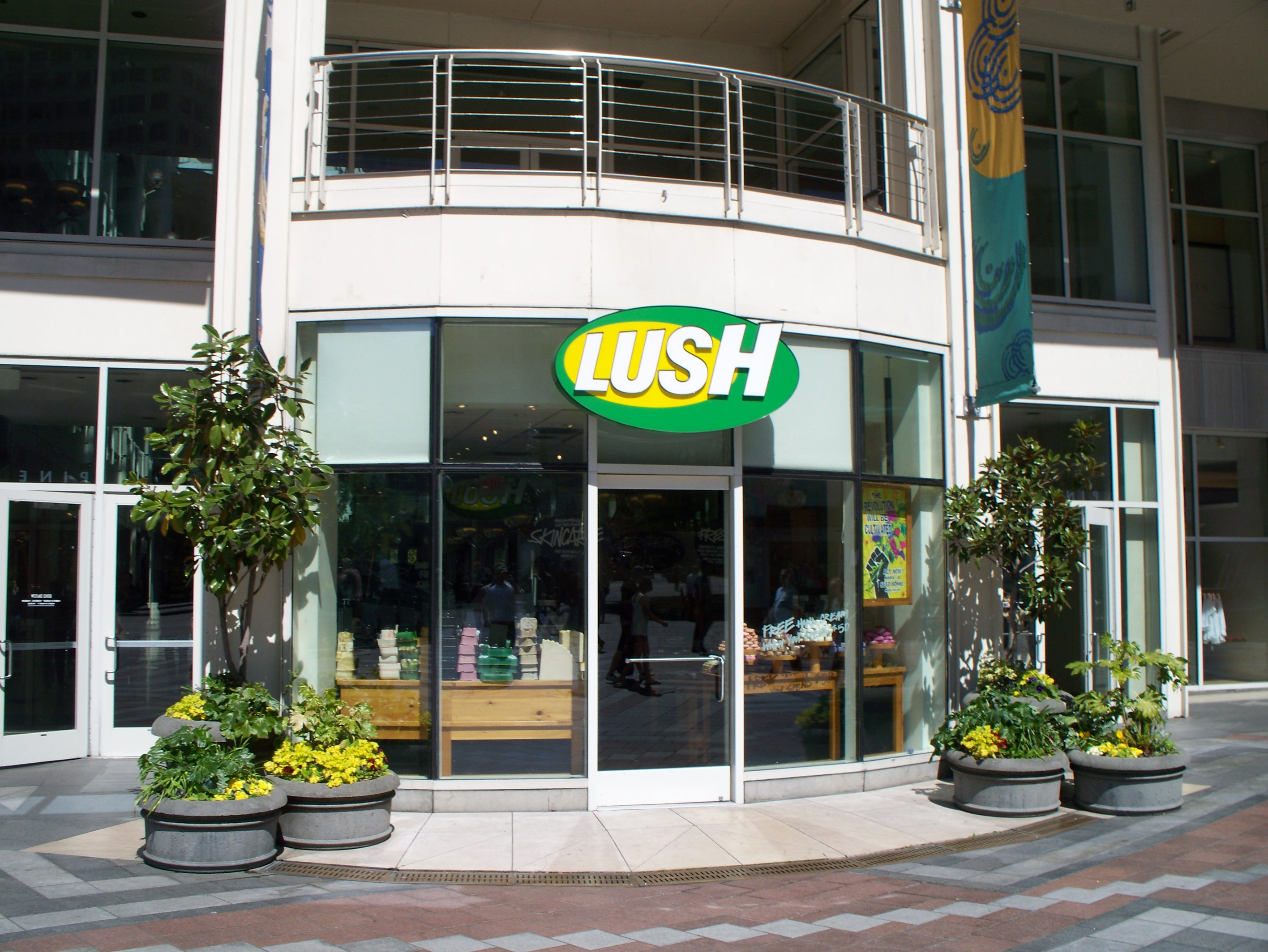 Lush store located in Westlake Center. Downtown Seattle, Washington.